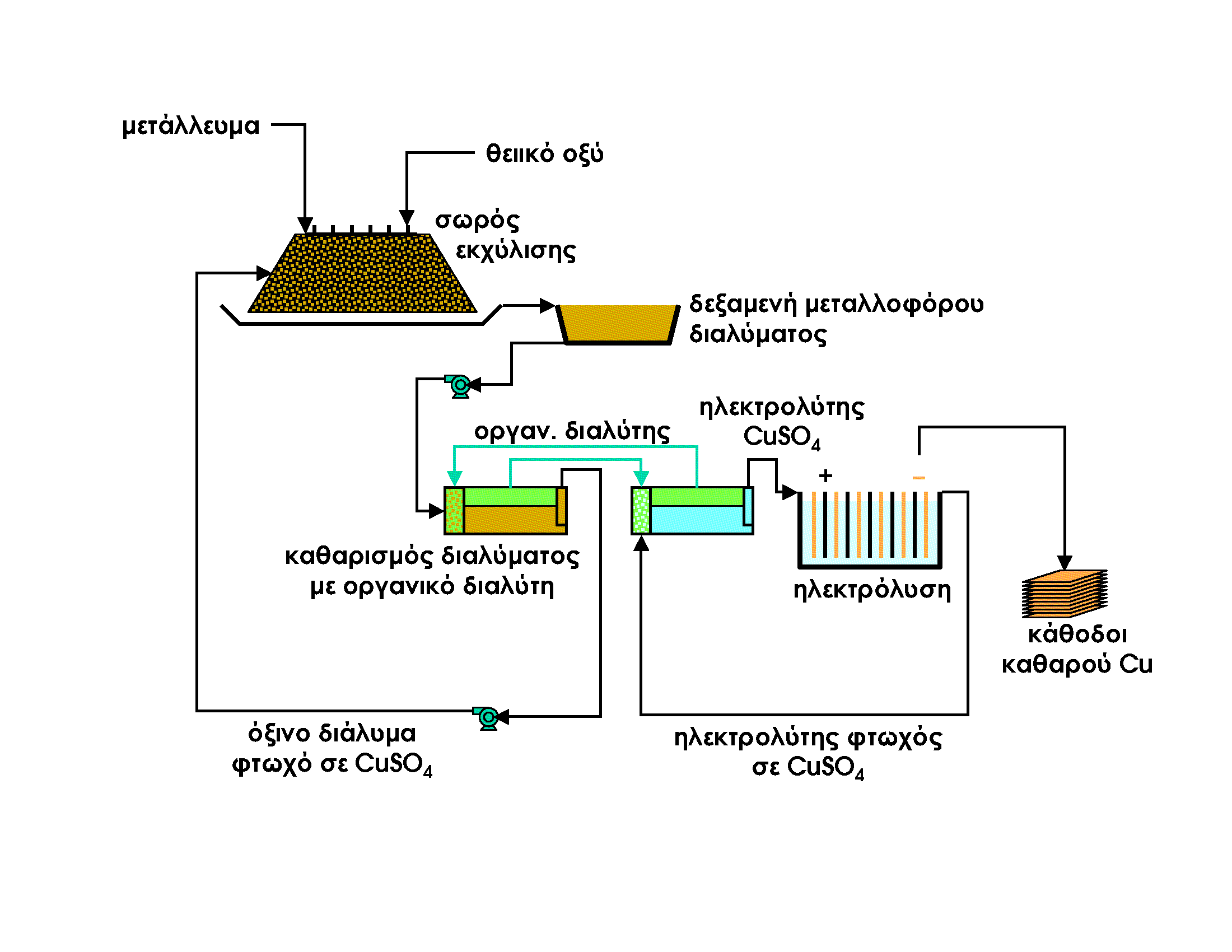 Cu production